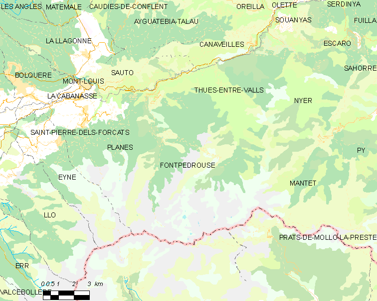 Map of French municipality